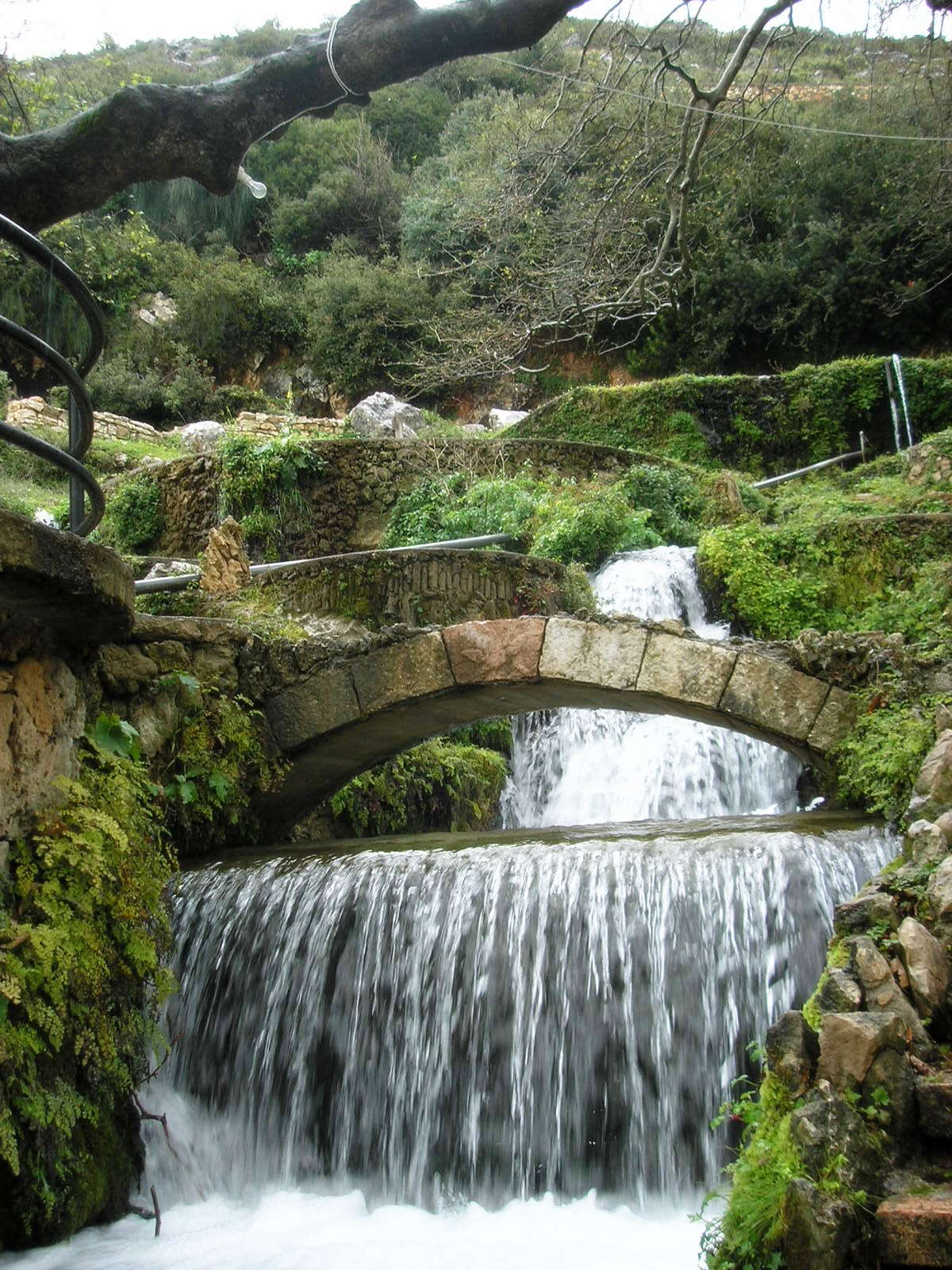 Borsh, Delvinë District, Albania